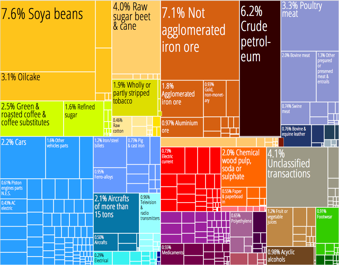 Graphical depiction of the country's product exports in 28 color coded categories. Each colored box represents one product and its size is proportional to the share of the country's total exports that the product represents.